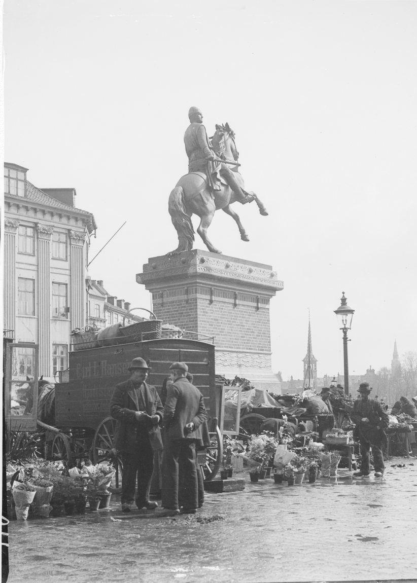 The equestrian statue of Bishop Absalon on Højbro Plads in Copenhagen, Denmark